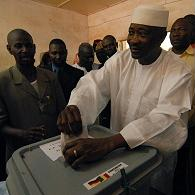 President Amadou Toumani Toure votes on Sunday 29 April 2007 Malian general elections. He was re-elected as President of Mali. Beside him to the left is a Malian government official in the distinctive brown military style uniform of the Malian civil service.